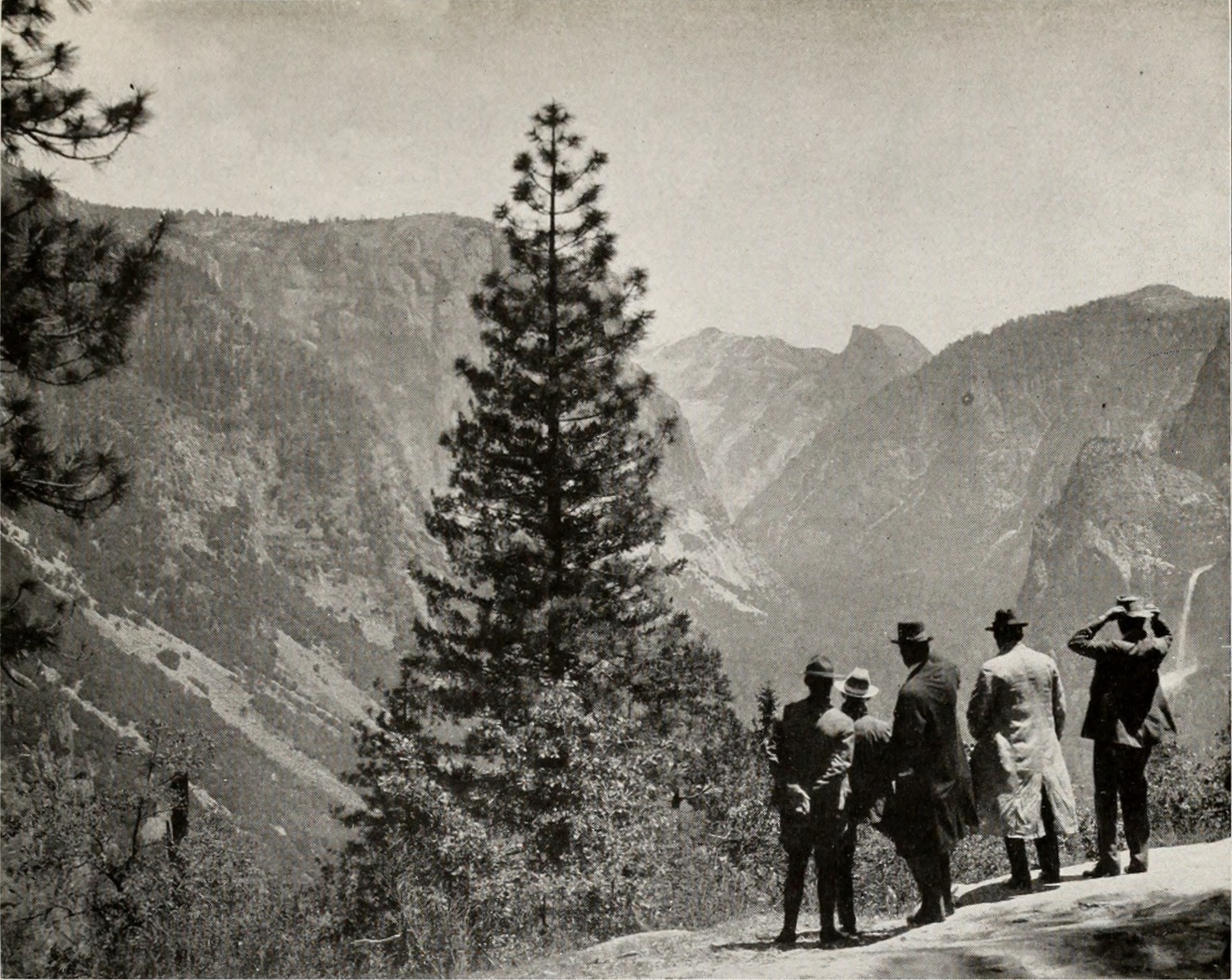 Photograph of Yosemite Valley in Yosemite National Park, California from Inspiration Point, showing Bridalveil Fall. This photo is found on page 42 of the 1921 publication of the National Parks Portfolio, and was digitized via the Internet Archive's Book Images Collection